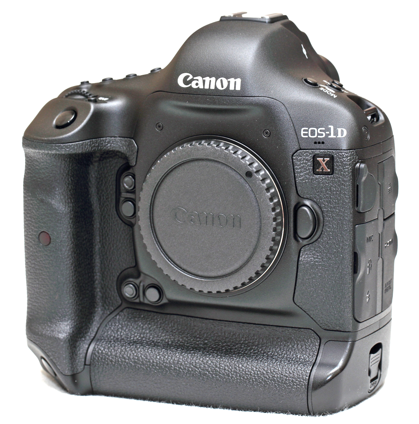 Canon EOS-1D X, professional DSLR camera